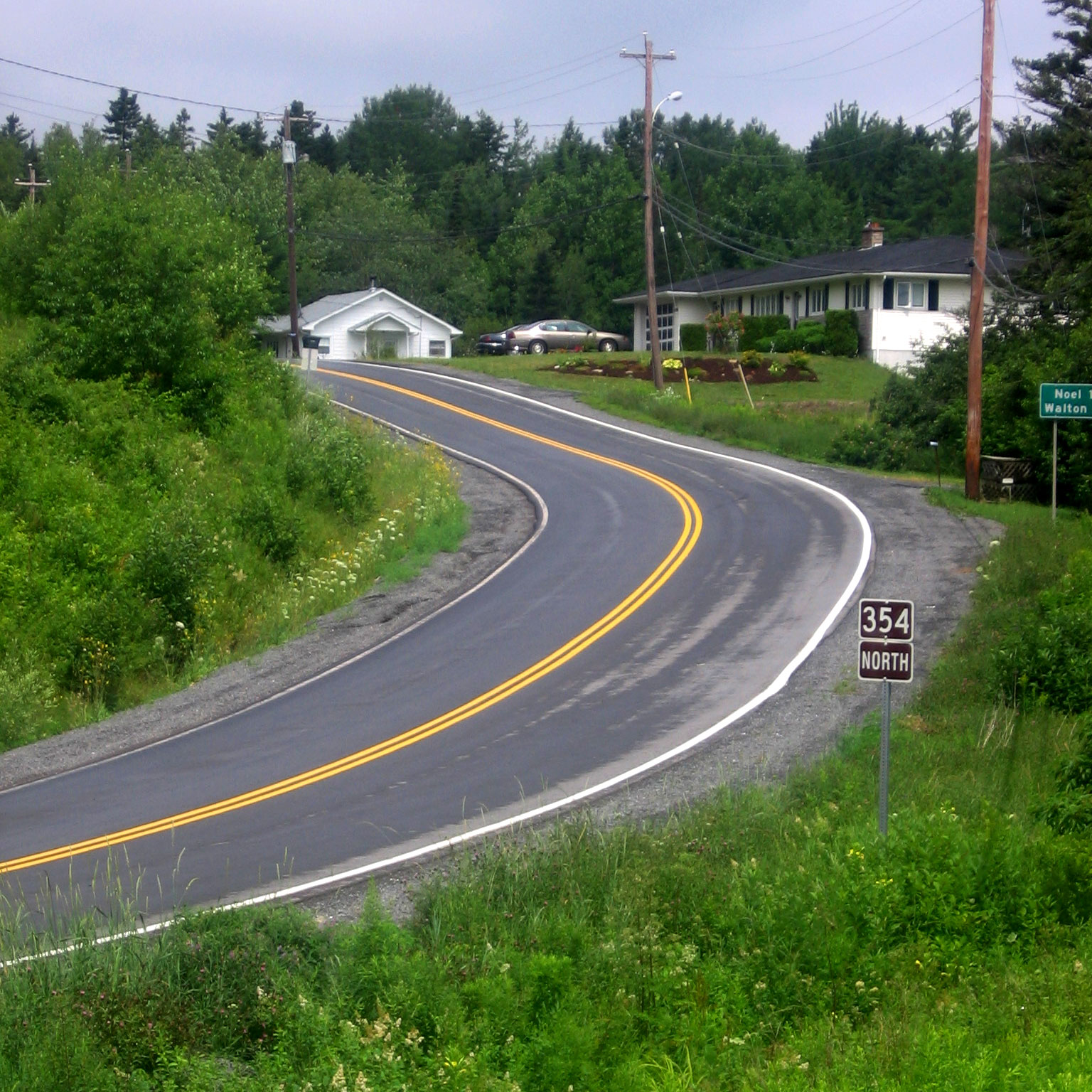 Photo of NS Route 354 in Kennetcook NS